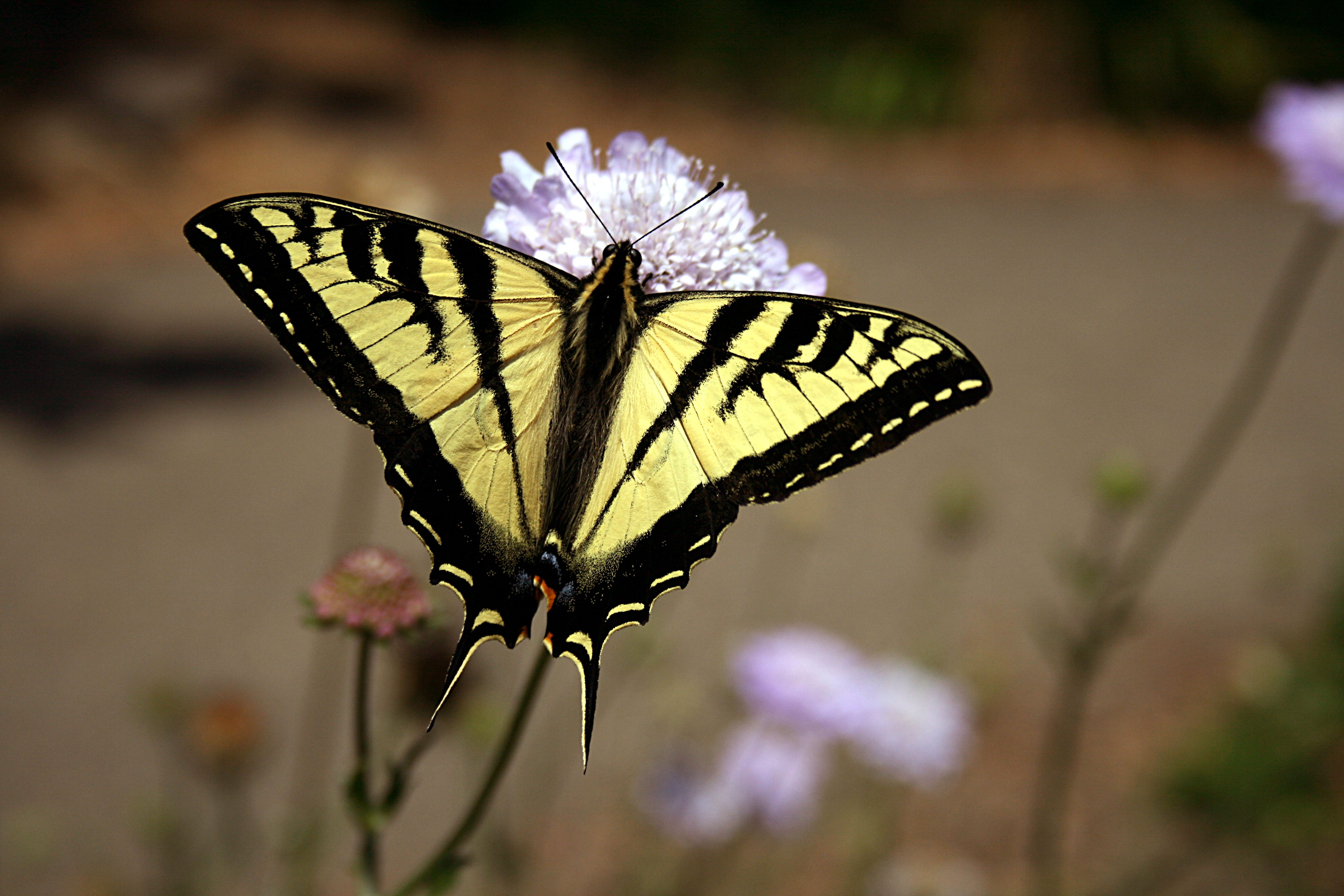 Papilio rutulus (Western Tiger Swallowtail), Swallowtail butterfly